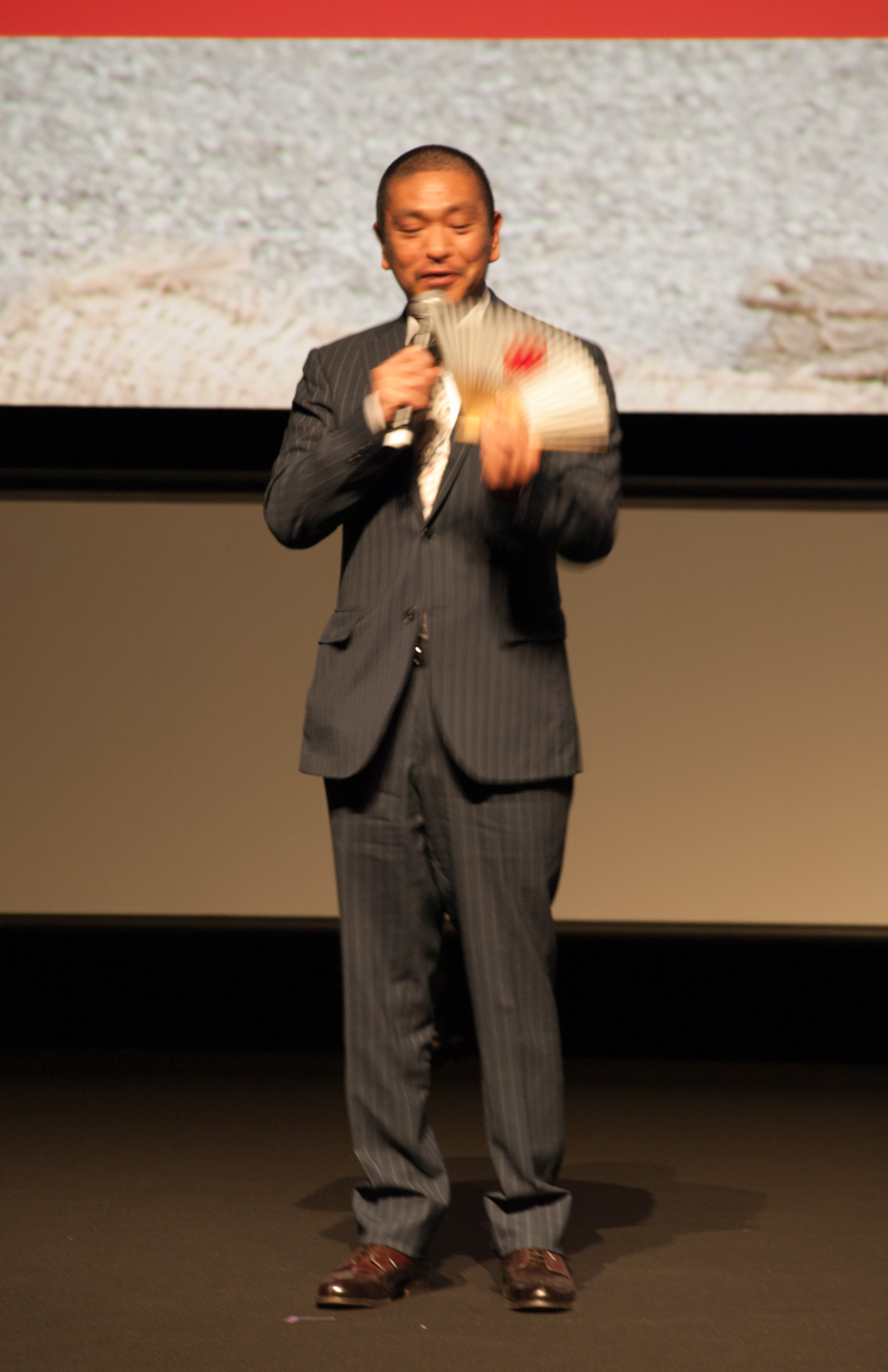 Saya Zamurai, Japan, 2011, Réalisateur. Director: Hitoshi Matsumoto.